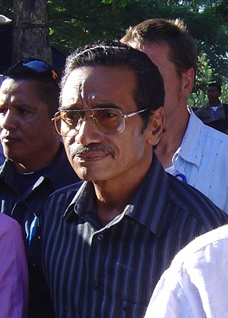 Francisco Lu-Olo Guterres at presidental election 2007